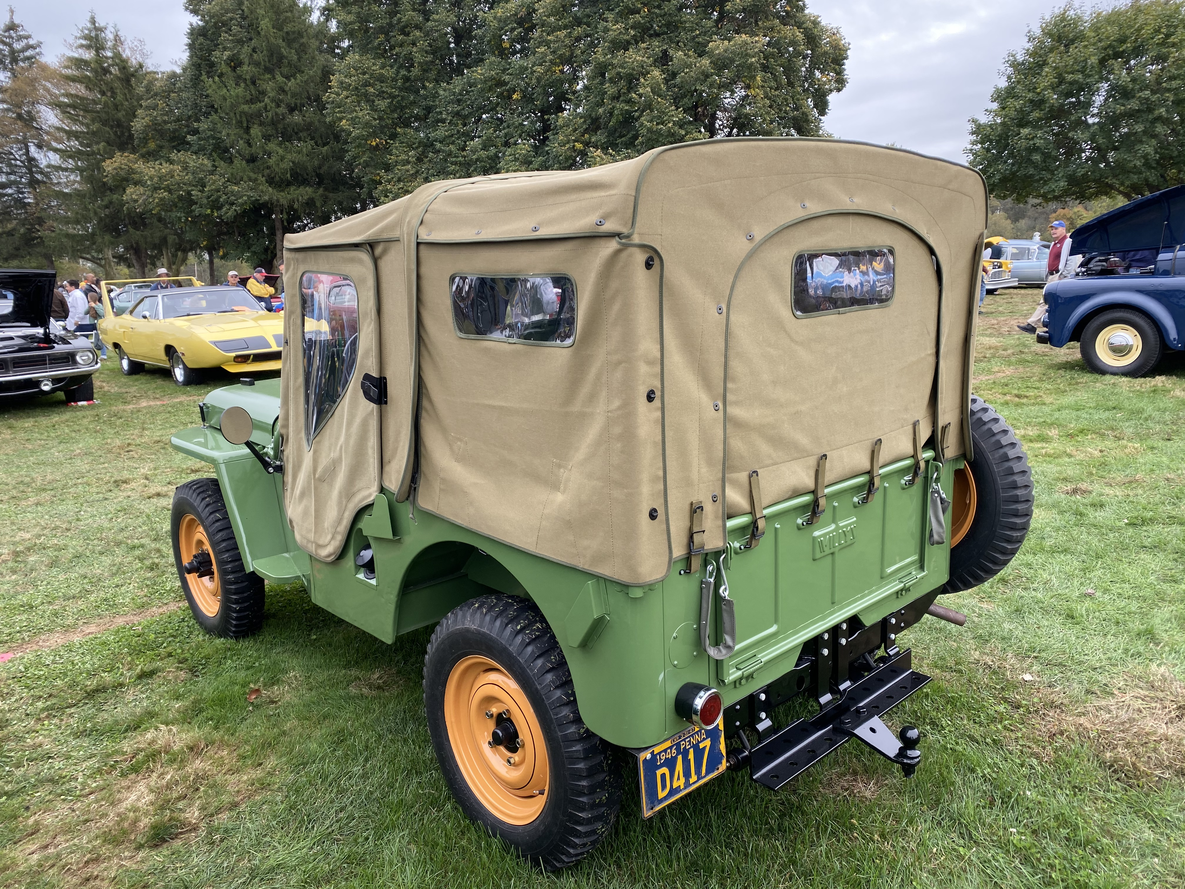 All restored original 1946 Willys CJ-2A Jeep with canvas top. Picture taken on the show field of the Antique Automobile Club of America (AACA) 2019 Hershey meet that is held every October in Pennsylvania.